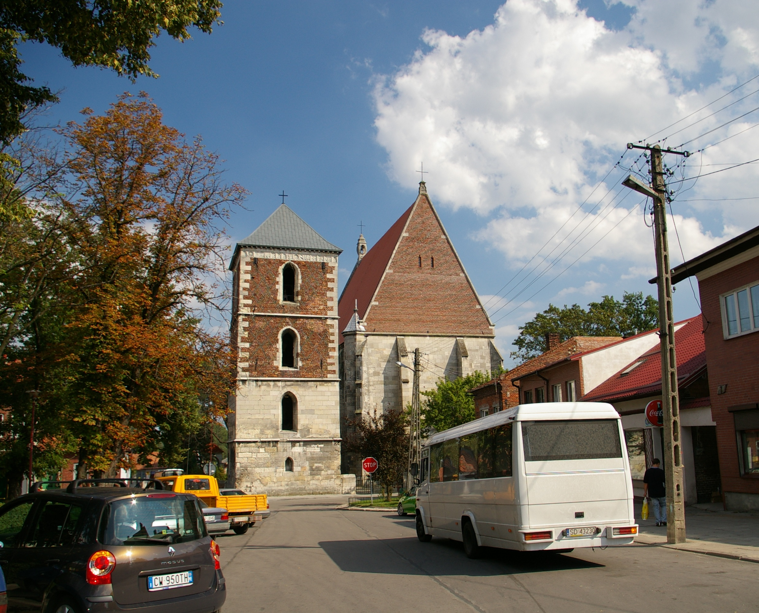 Market square and basilica in Wiślica, Poland